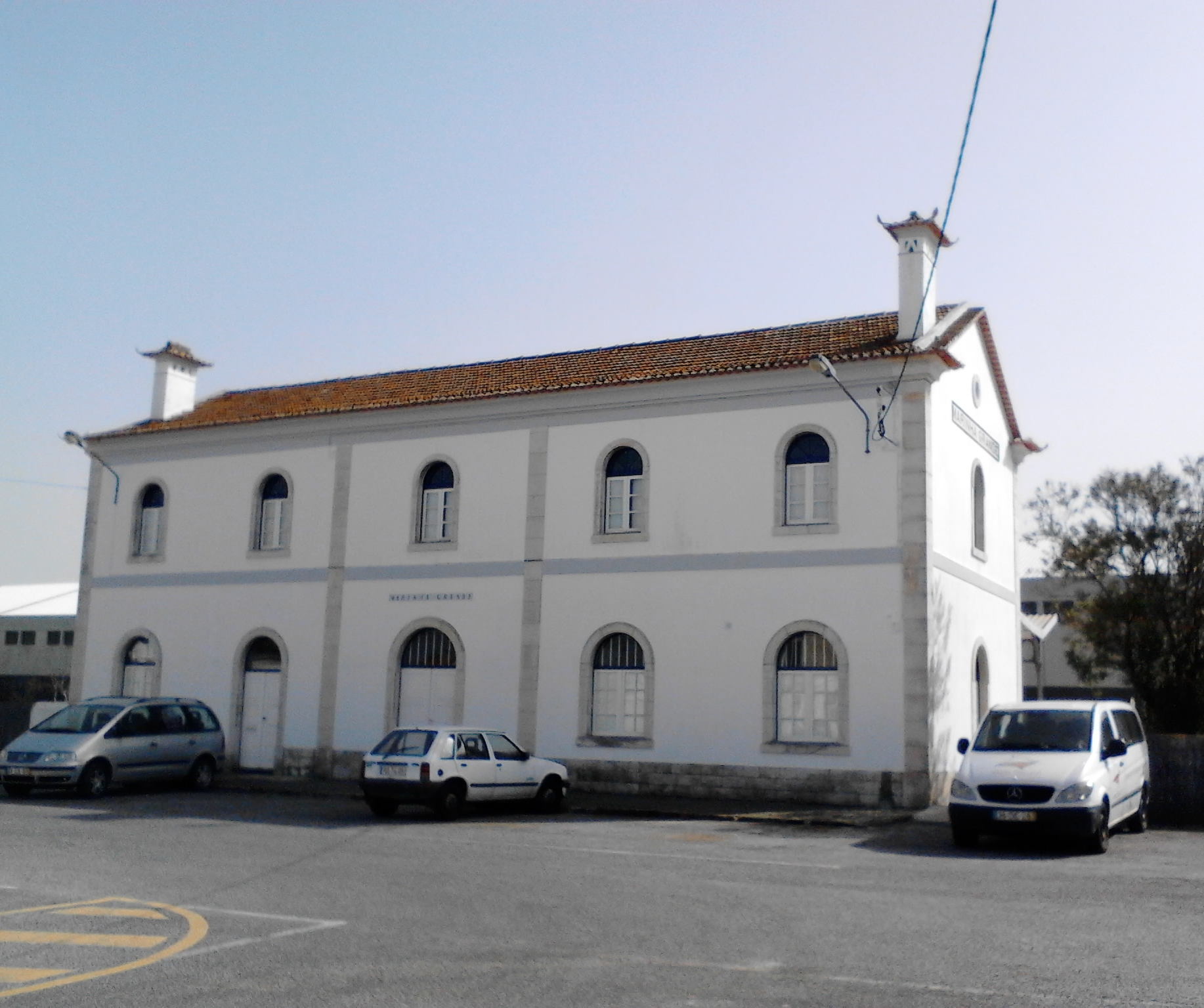 Entrance to Marinha Grande train station